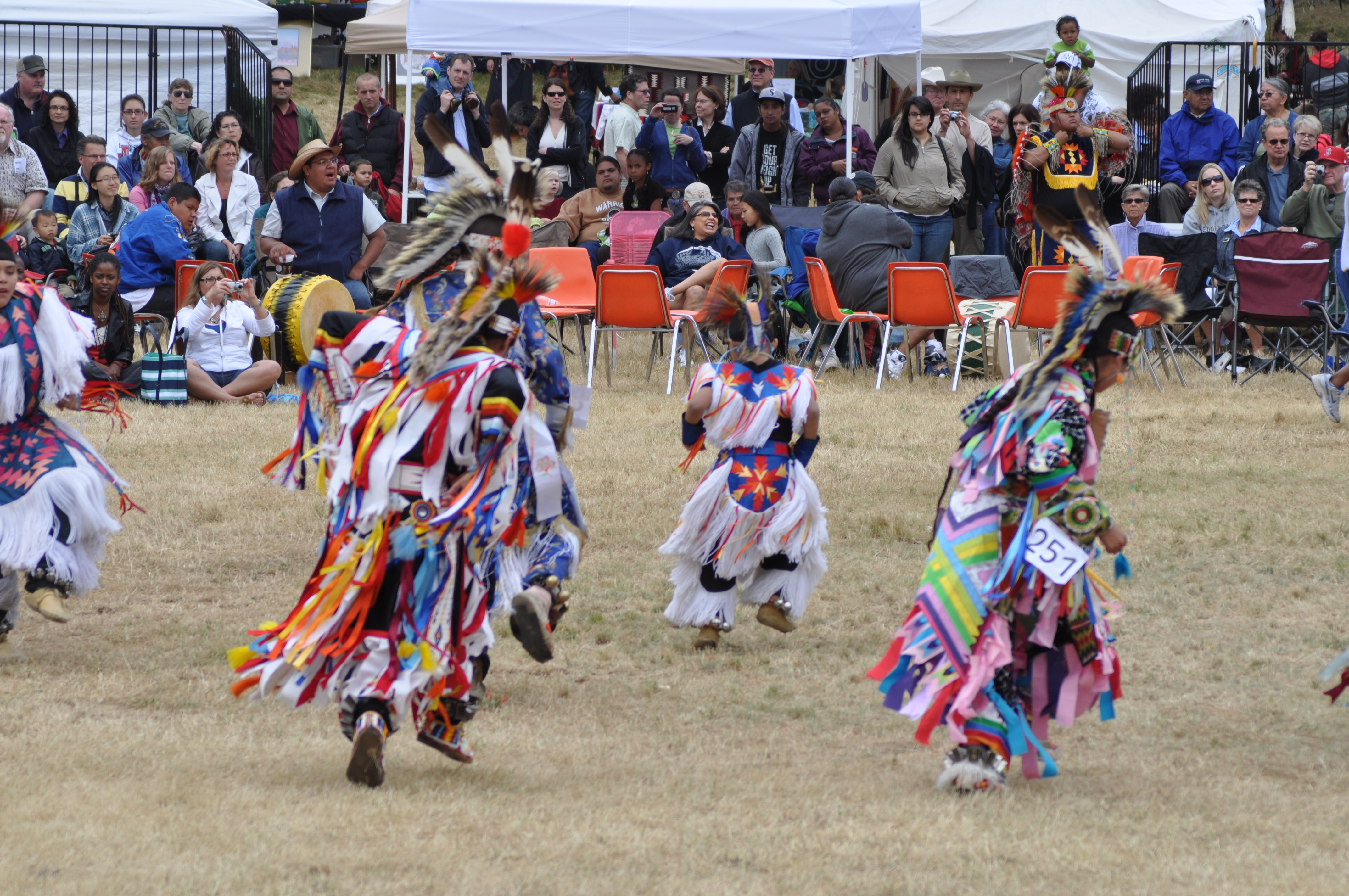 2010 Seafair Indian Days Pow Wow, Seattle, Washington.